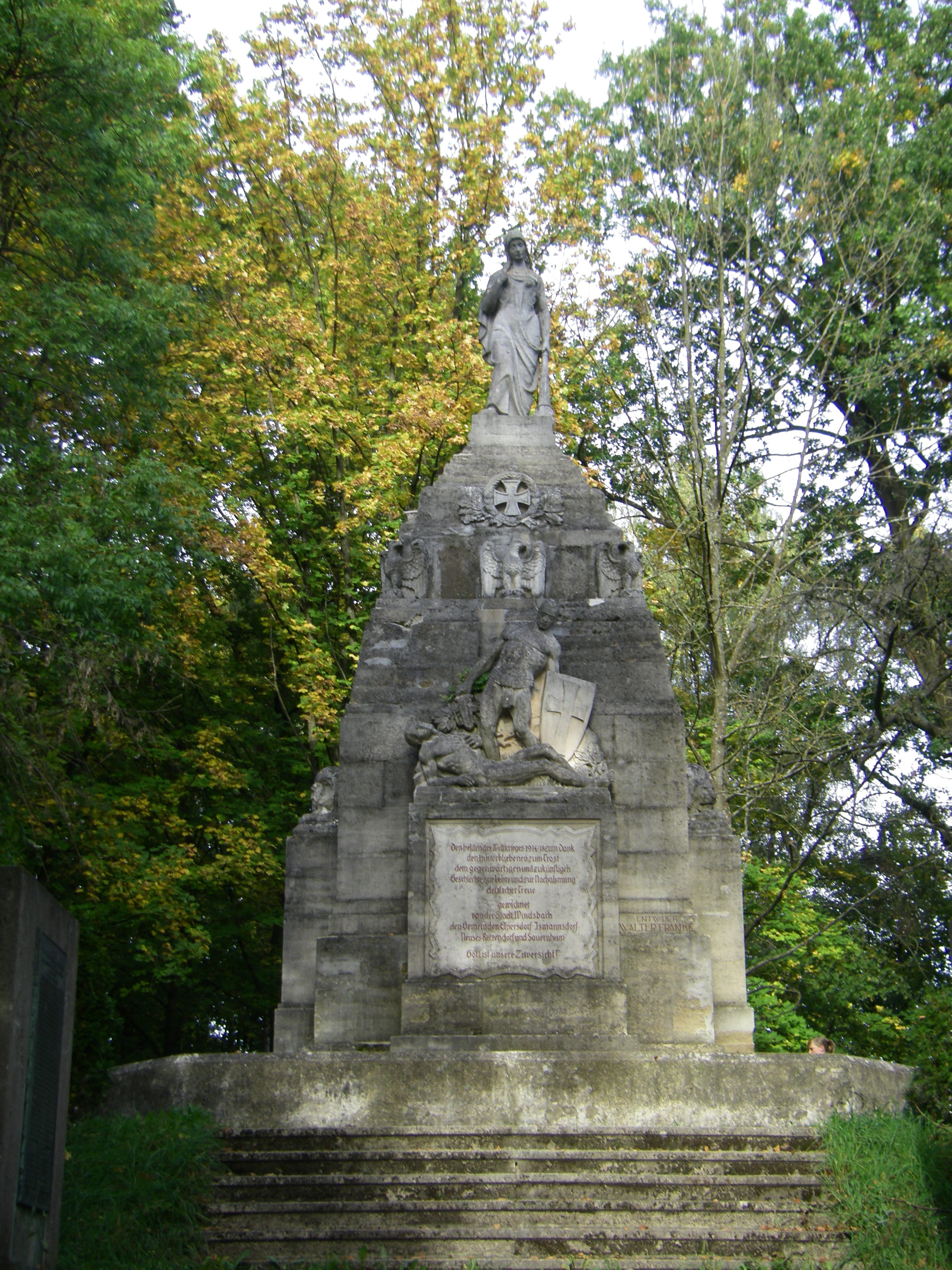 War memorial in Windsbach, Germany